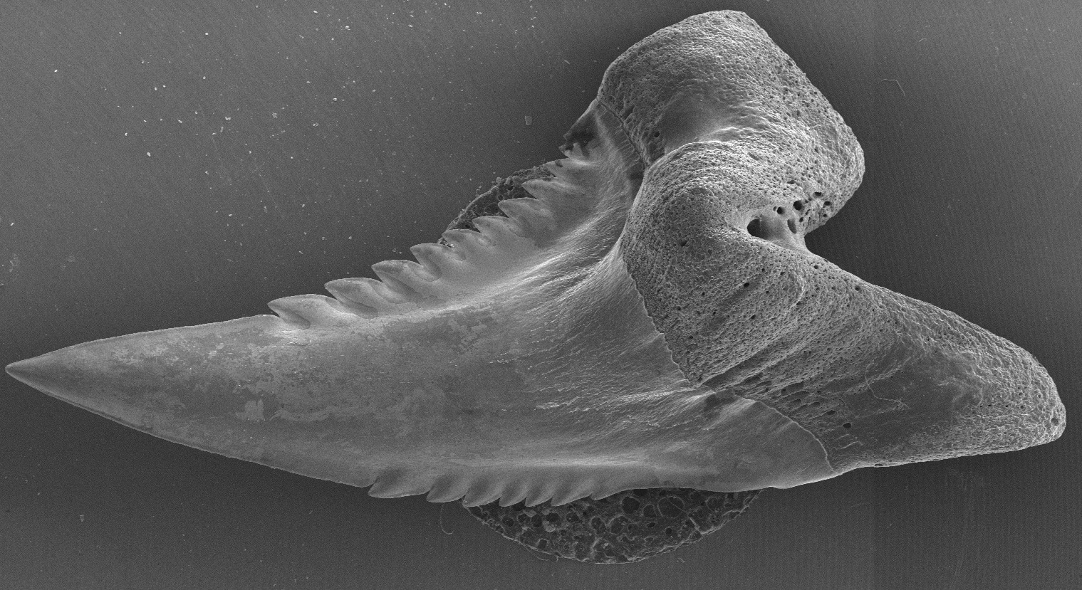 Hemipristis elongatus anterior